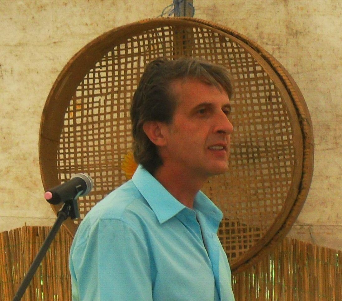 Karčin Holec or Károly Holecz (1969-) writer and journalist of the Hungarian Slovenes and Prekmurian language (prekmurščina). Orfalu 2013